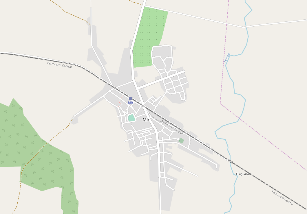 This map may be incomplete, and may contain errors. Don't rely solely on it for navigation.